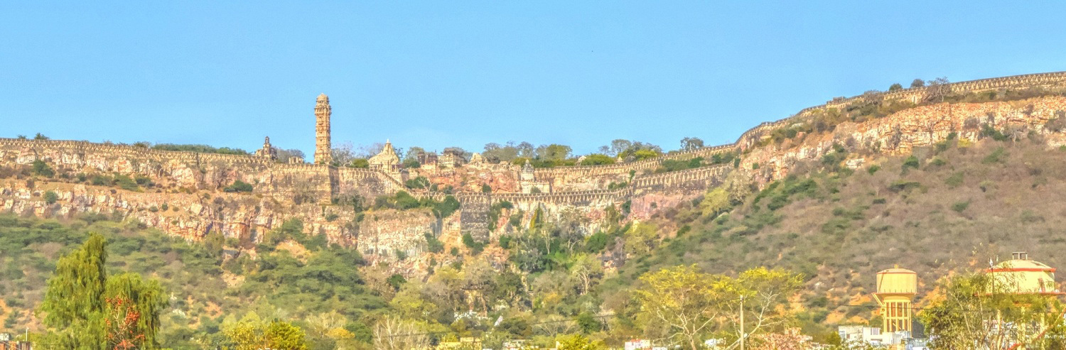 Vijay_Stamb_View_from_Chittor.jpg